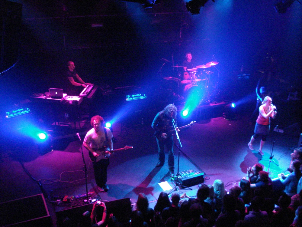 Live performance